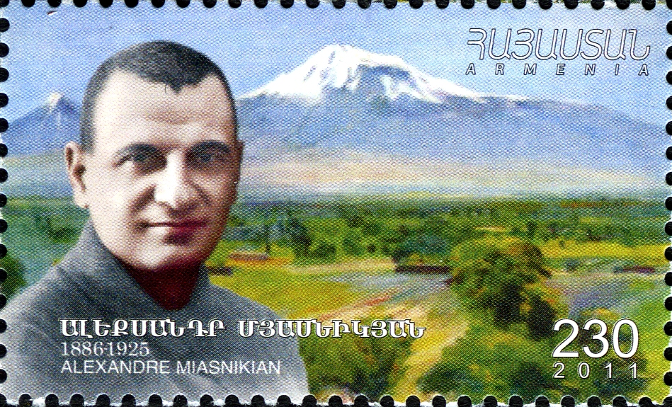 125th Anniversary of Alexandre Miasnikian